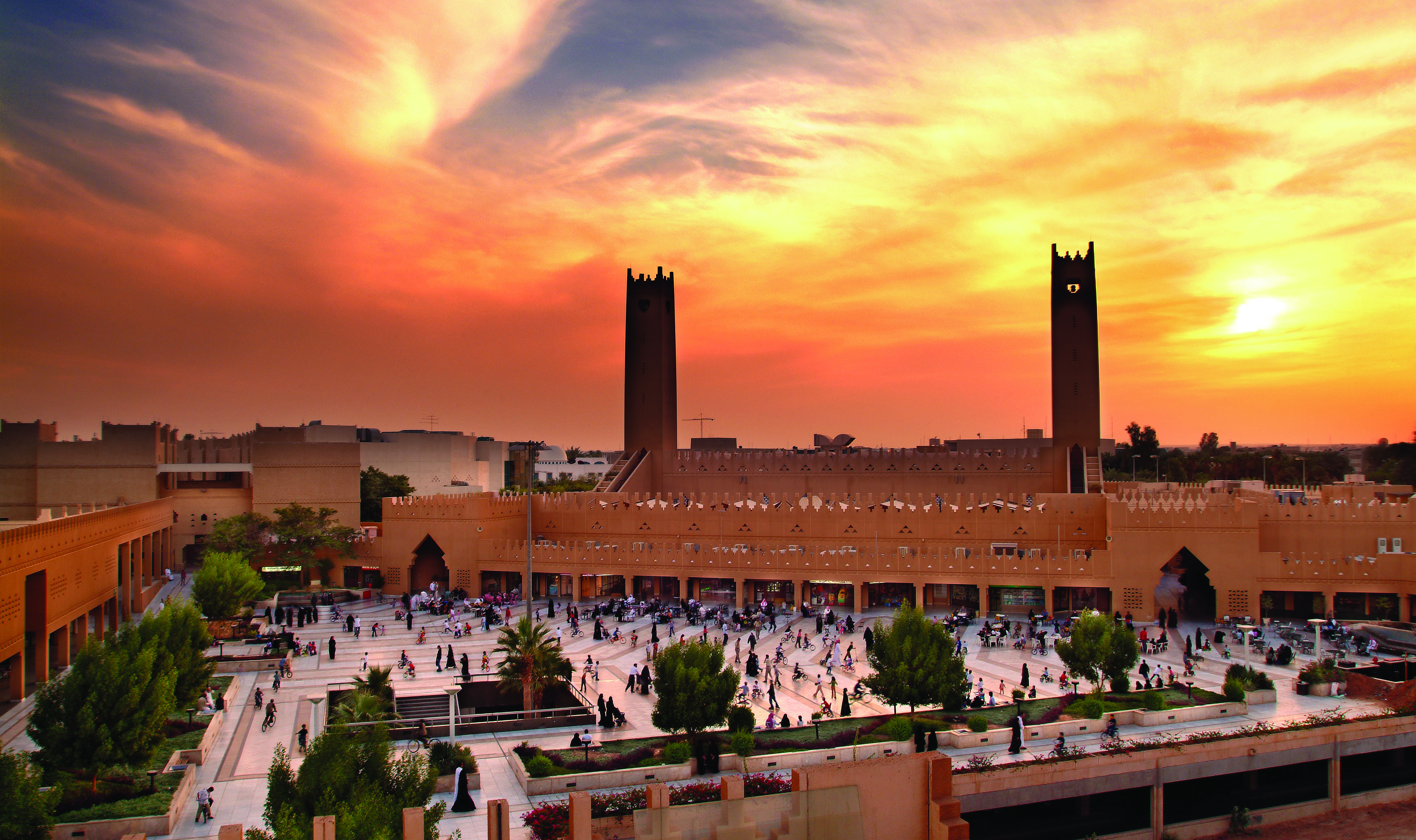 الدرعية التاريخية